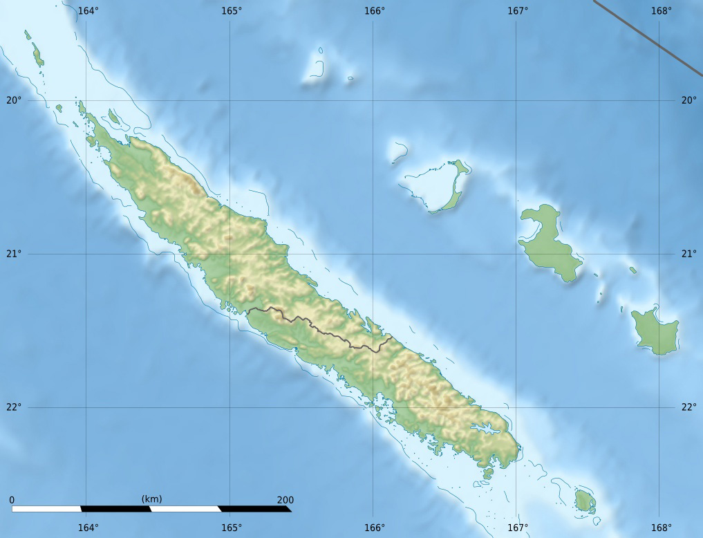 Blank physical map of the territorial collectivity of New Caledonia, France, for geo-location purpose.This is a map centered on the main islands. For a general map allowing to geo-locate the remote islands, see below.